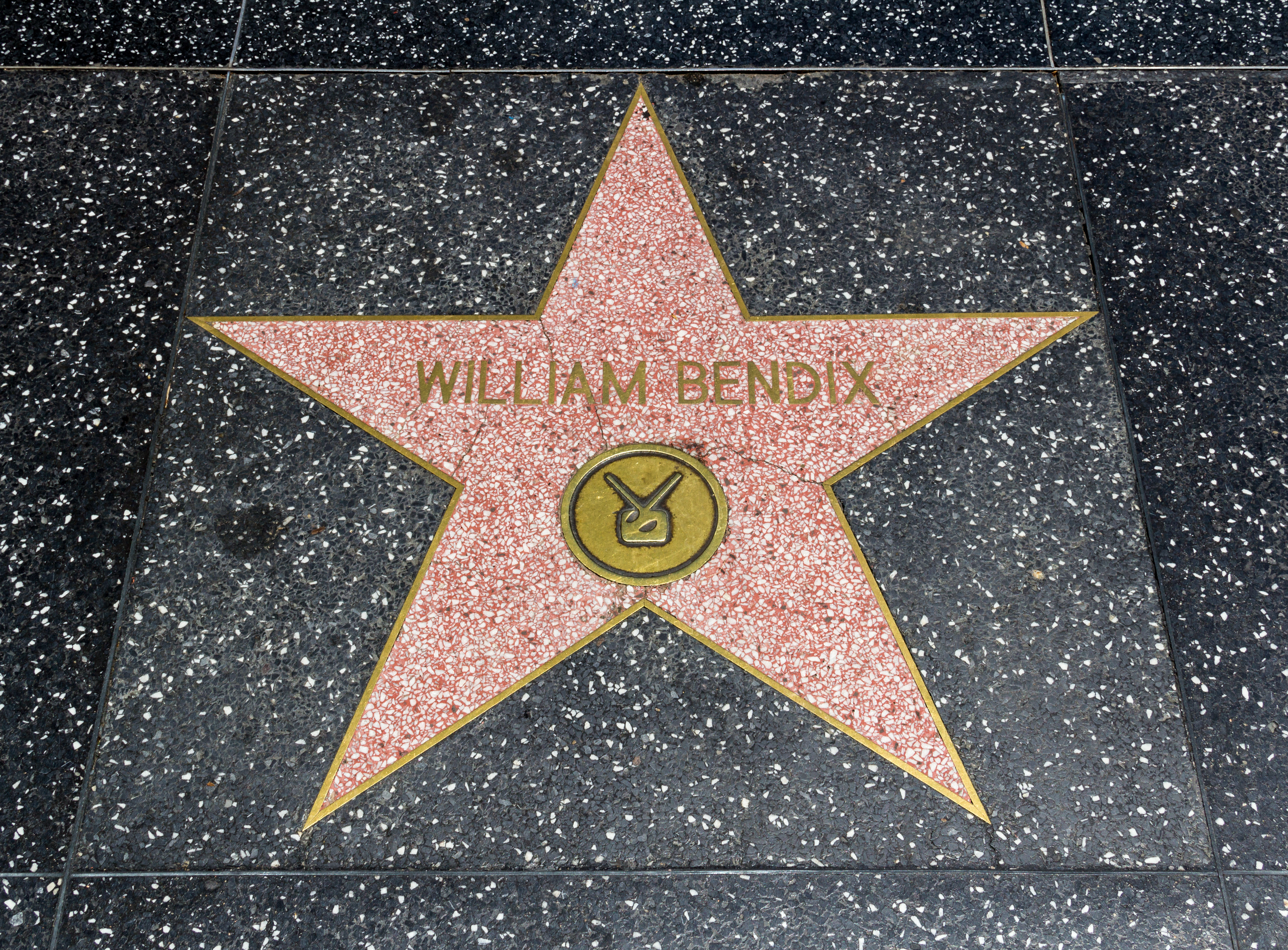 Star “William Bendix” at the Hollywood Boulevard in Los Angeles, California, USA